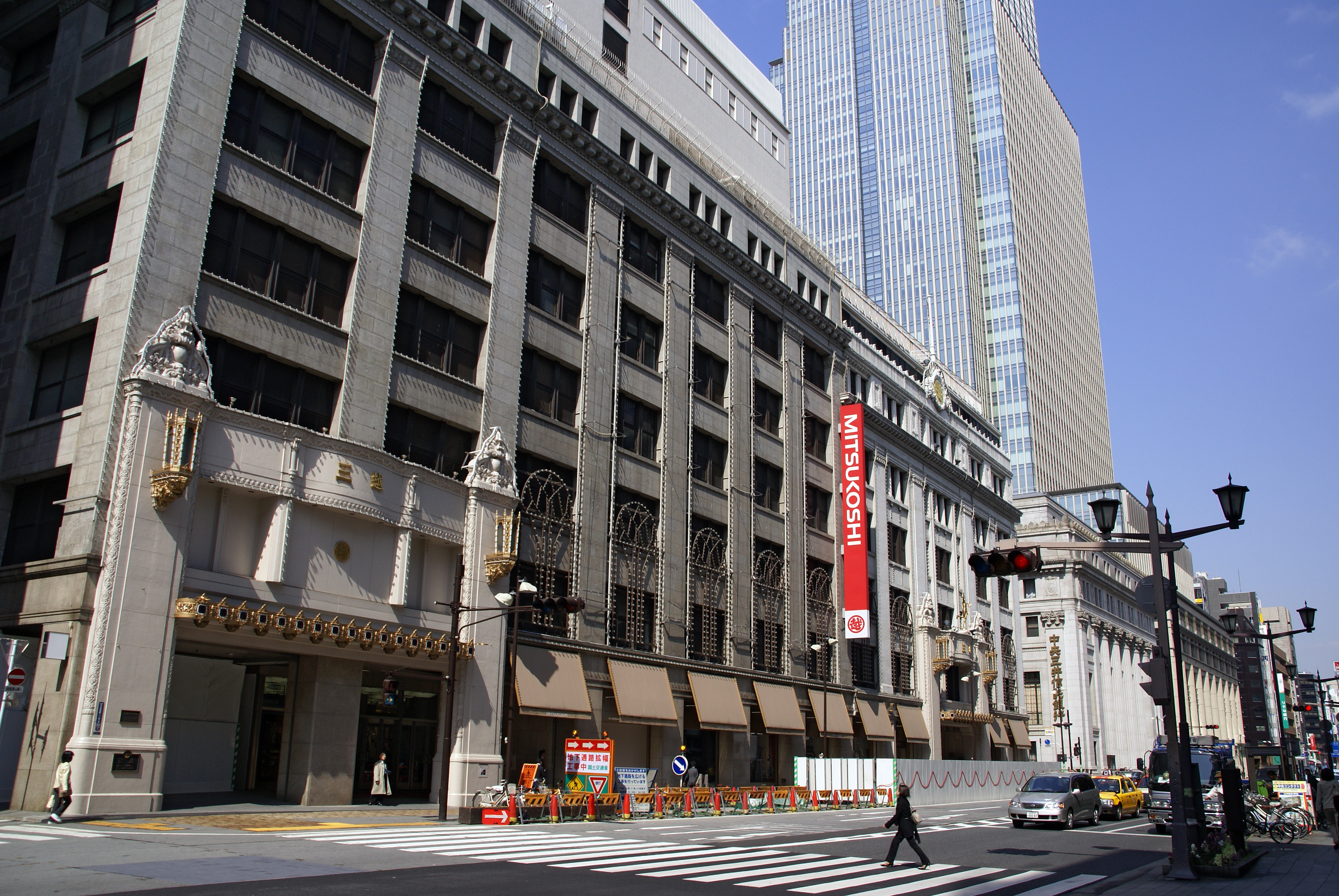 Mitsukoshi department store in Nihombashi, Tokyo, Japan